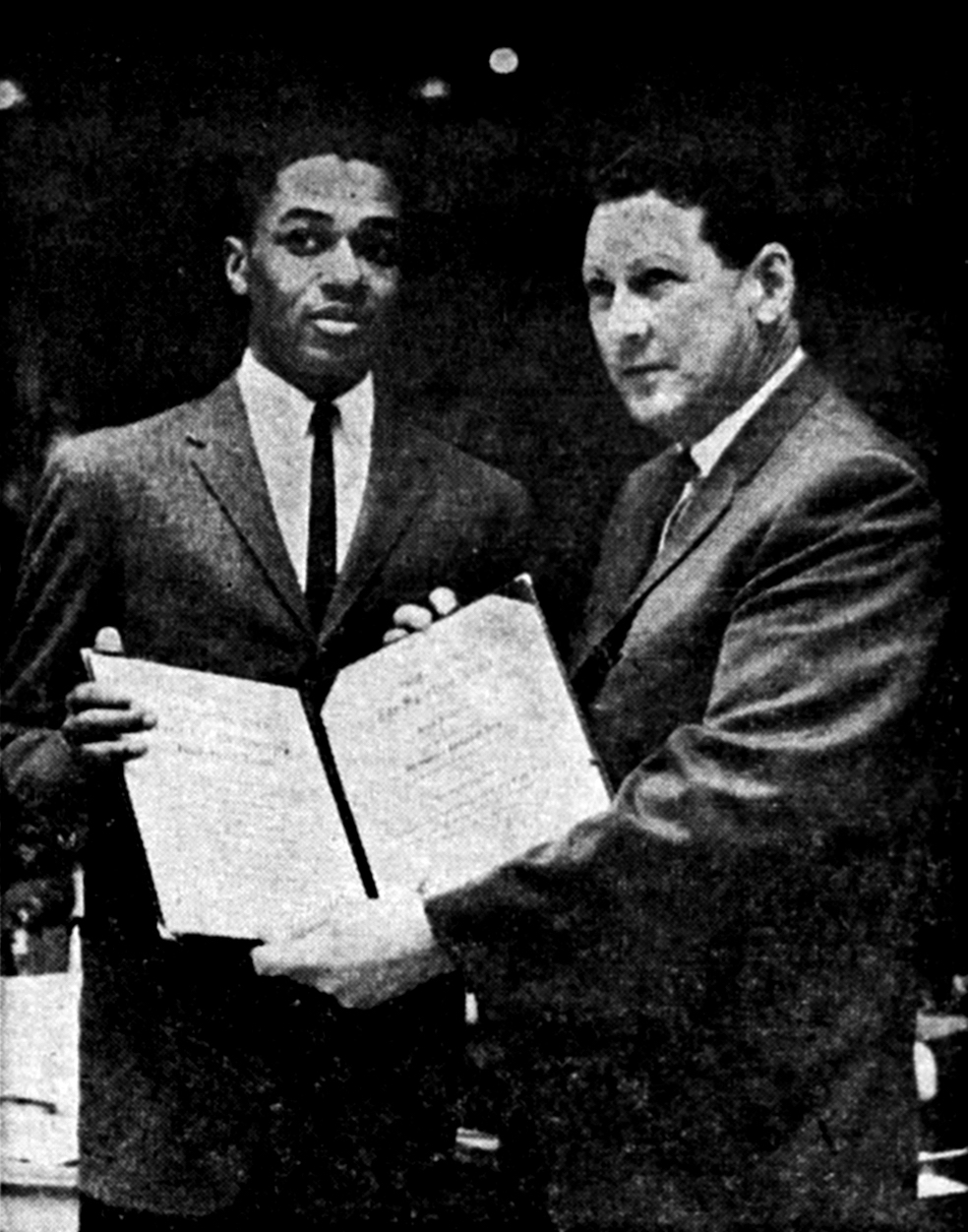 A photo from the March 7, 1963 issue of Loyola News, the student newspaper of Loyola University Chicago. Original caption: "JERRY HARKNESS, chosen overwhelmingly to all major All-American teams, receives the Sporting News award from Coach George Ireland at the end of last Saturday's Wichita game." — Loyola News